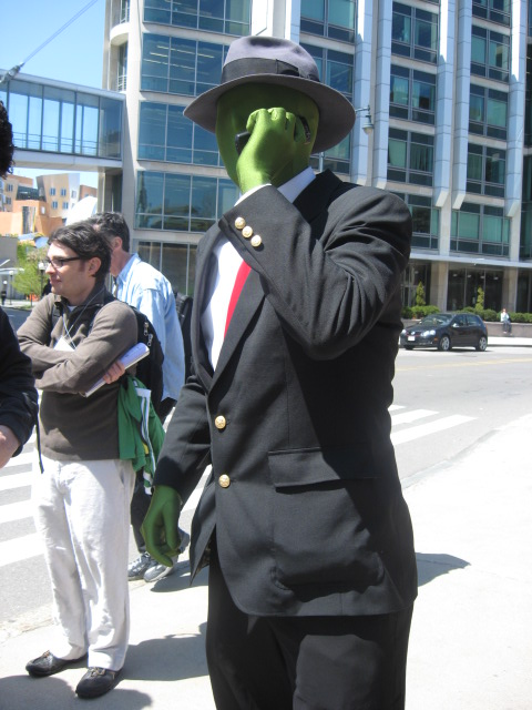 "Anonymous is Serious Business": Anonymous photographed at ROFLcon on April 26, 2008